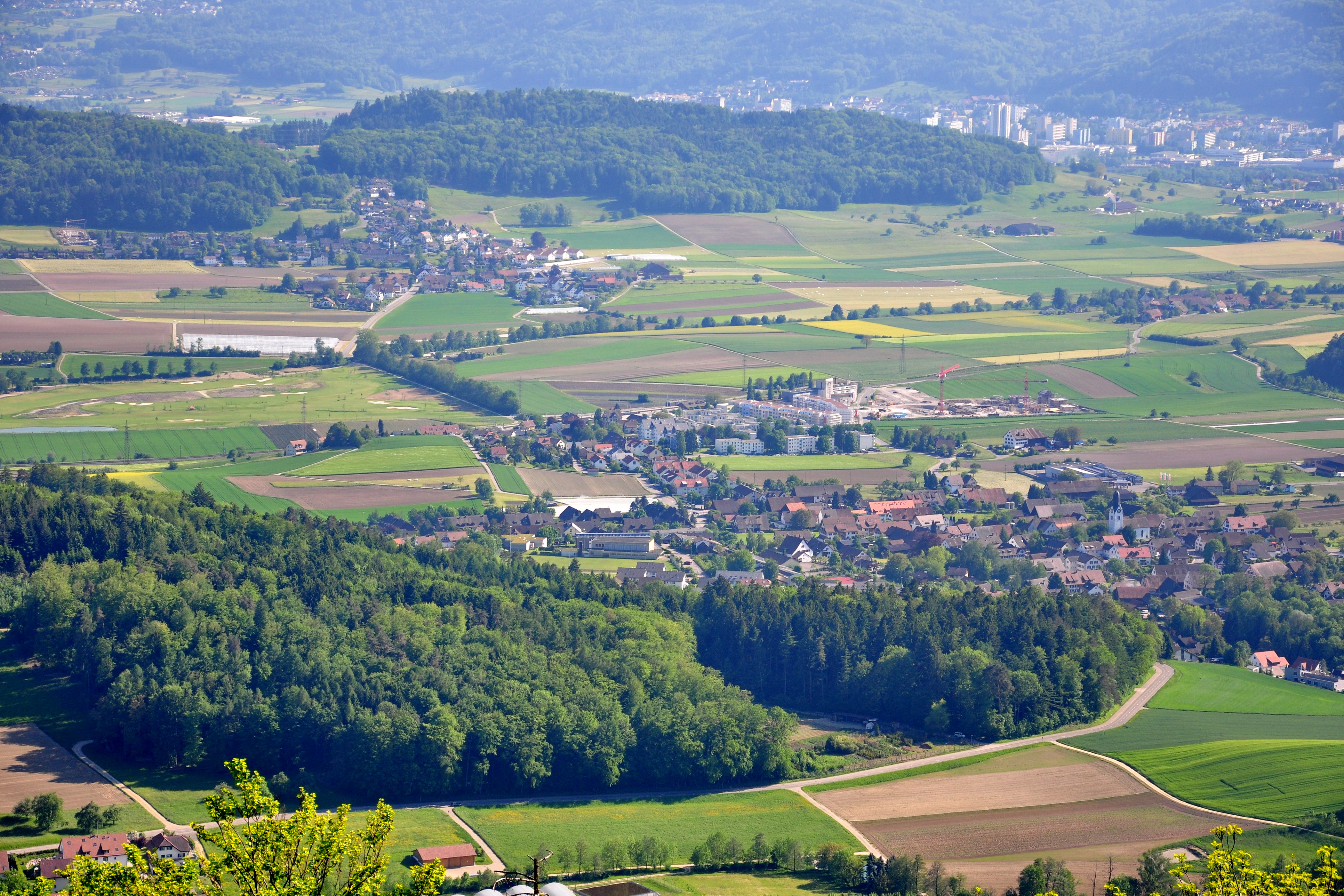 Otelfingen and Hüttikon as seen from Burghorn respectively Jura-Höhenweg on Lägern (Switzerland)